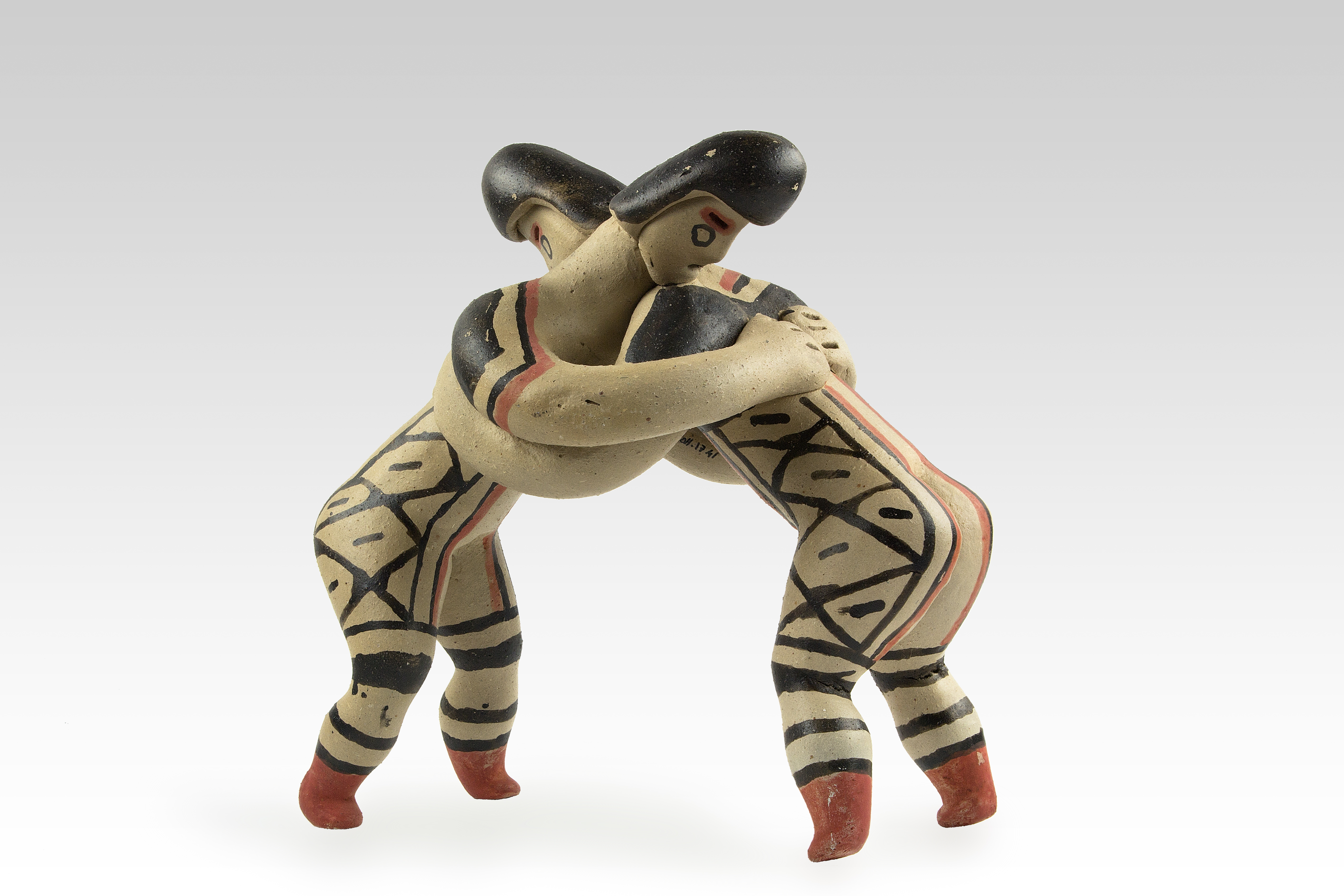 wrestlers size : 15,5 x 15,5 x 11,5 cm material : clay technique : ceramic